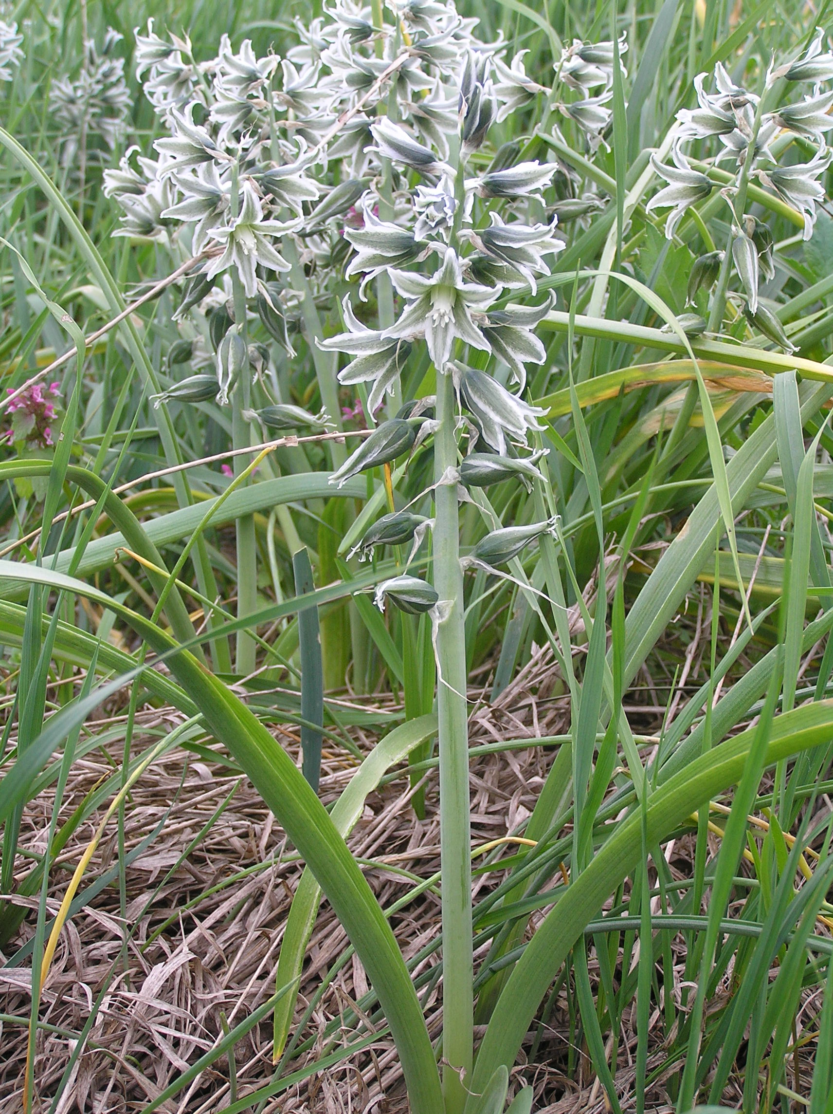 Ornithogalum boucheanum, between Lanžhot and Břeclav, Southern Moravia, Czech Republic